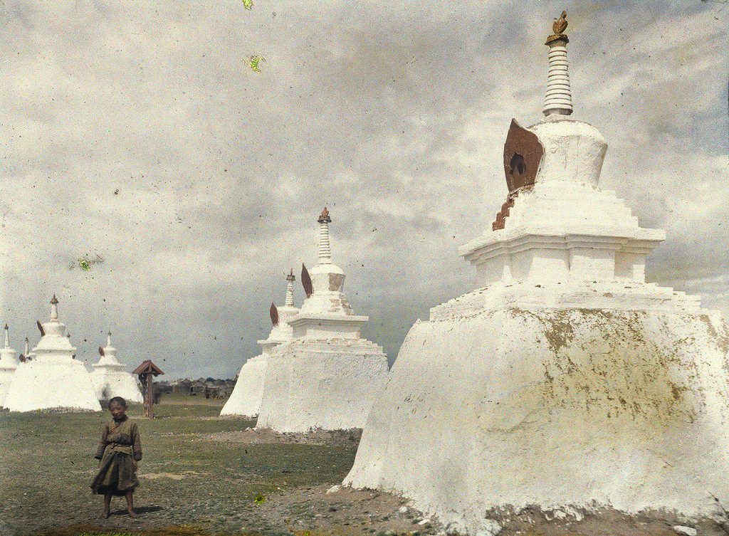 A young boy near the line of stupas, limits of Gandan, Urga, Mongolia.